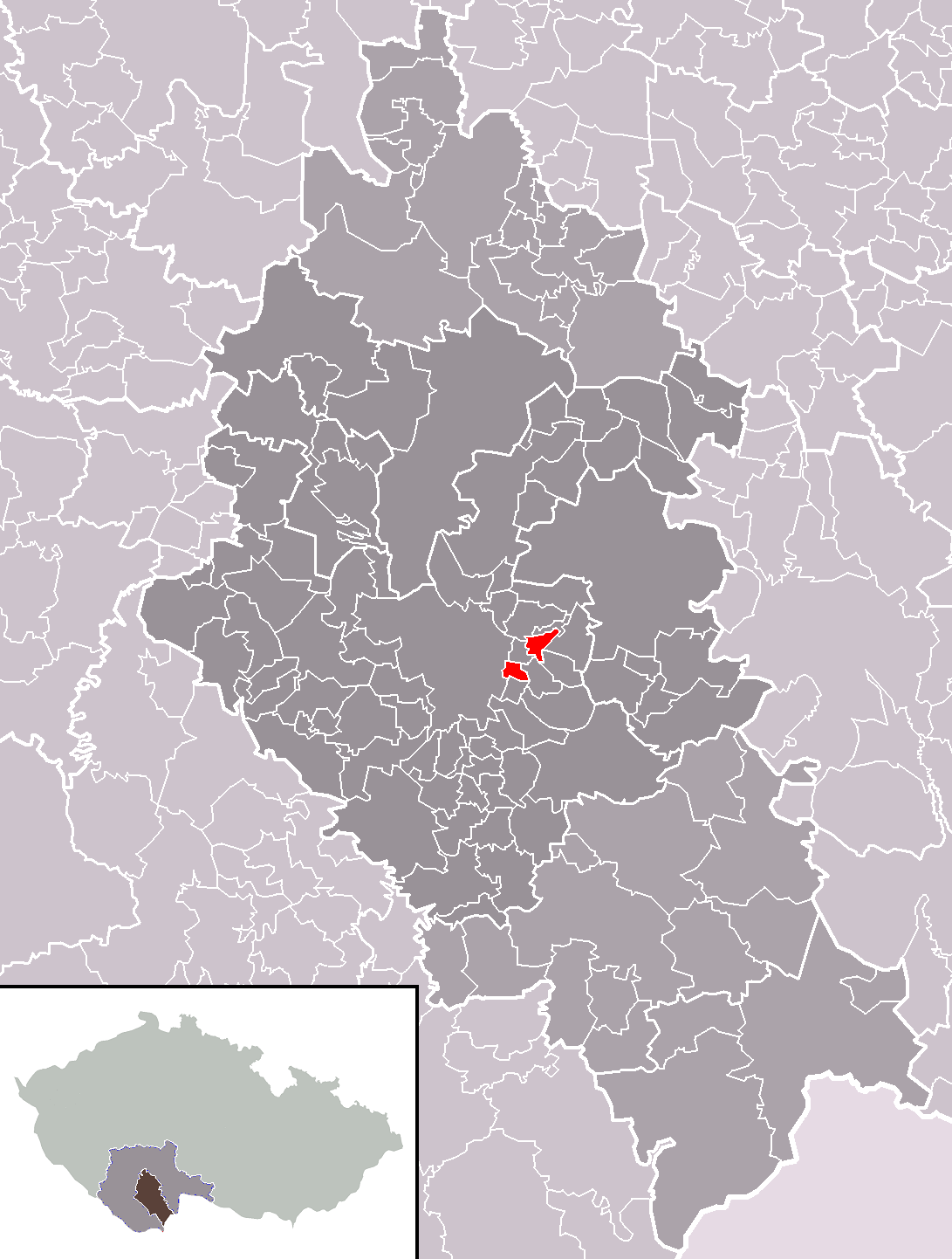 Location of Rudolfov town within České Budějovice District and administrative area of České Budějovice as a Municipality with Extended Competence.